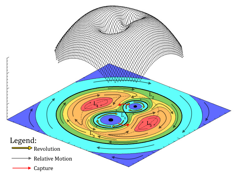 Colorized Roche Potential